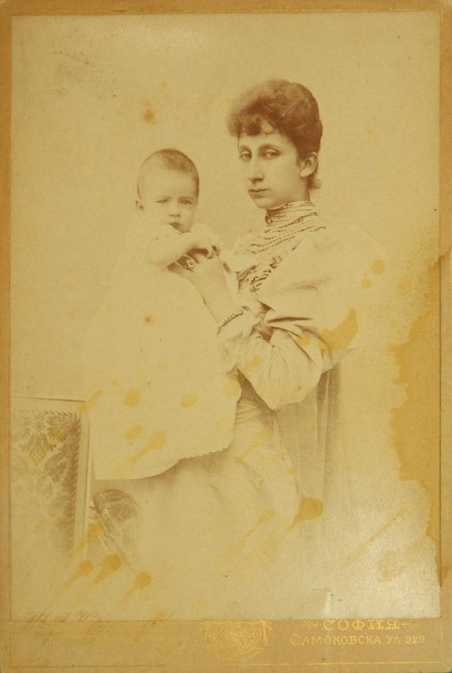 Portrait of Marie Louise of Bourbon-Parma (1870-1899), Princess of Bulgaria and her son Boris